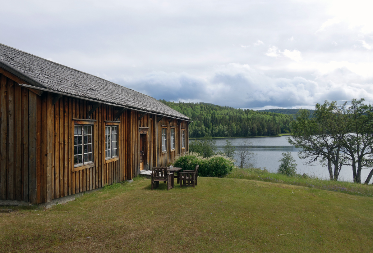 Lake Norr-Almsjön, Kramfors Municipality, northern Sweden. The farm house is probably from the 17th century, when the settlement was established by Finns.